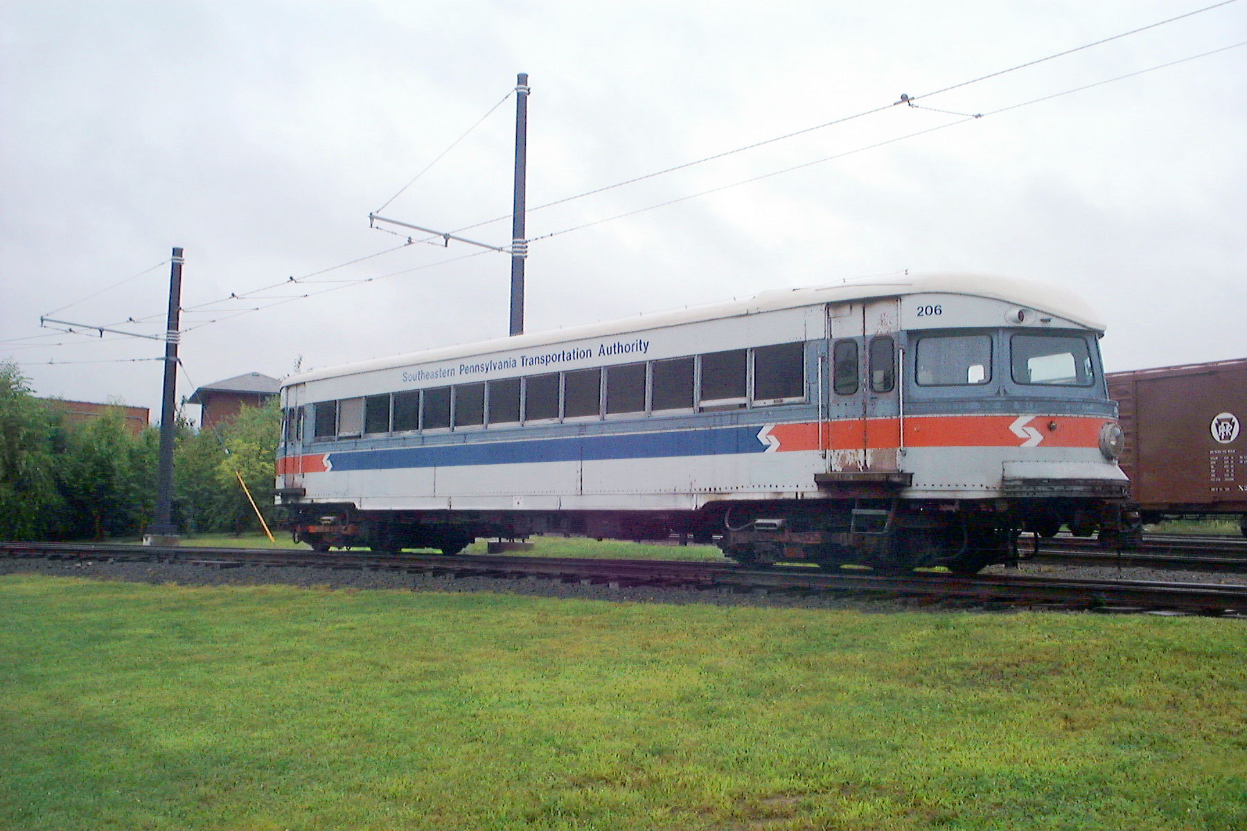 Philadelphia & Western Railway Co. #206n seen at the Electric City Trolley Museum, Scranton,PA